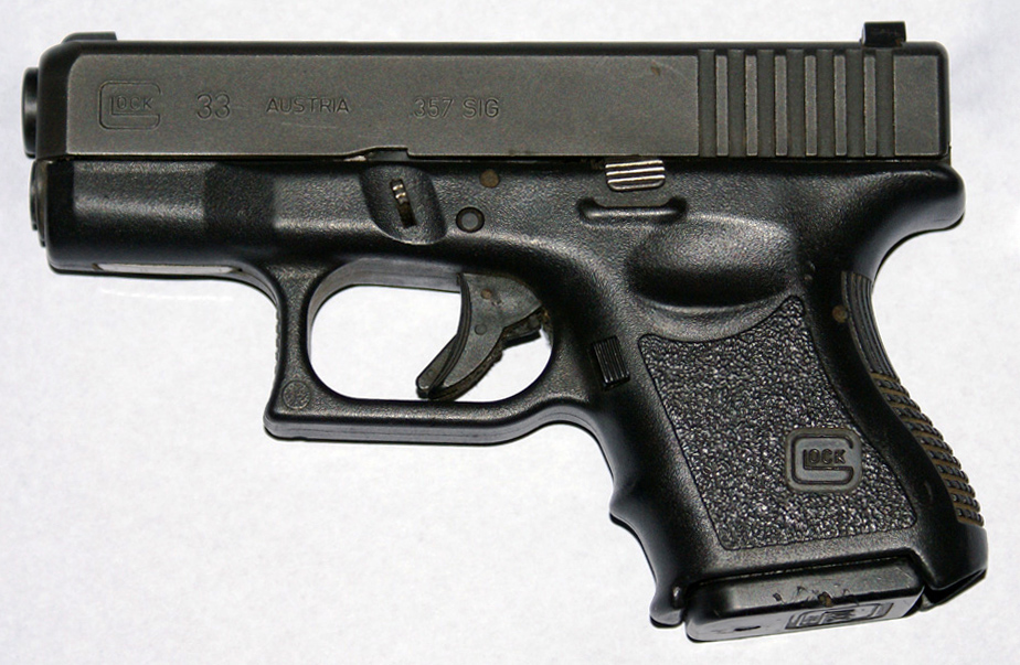 Taken by Paul F. Maul, an original photograph for Wikipedia.